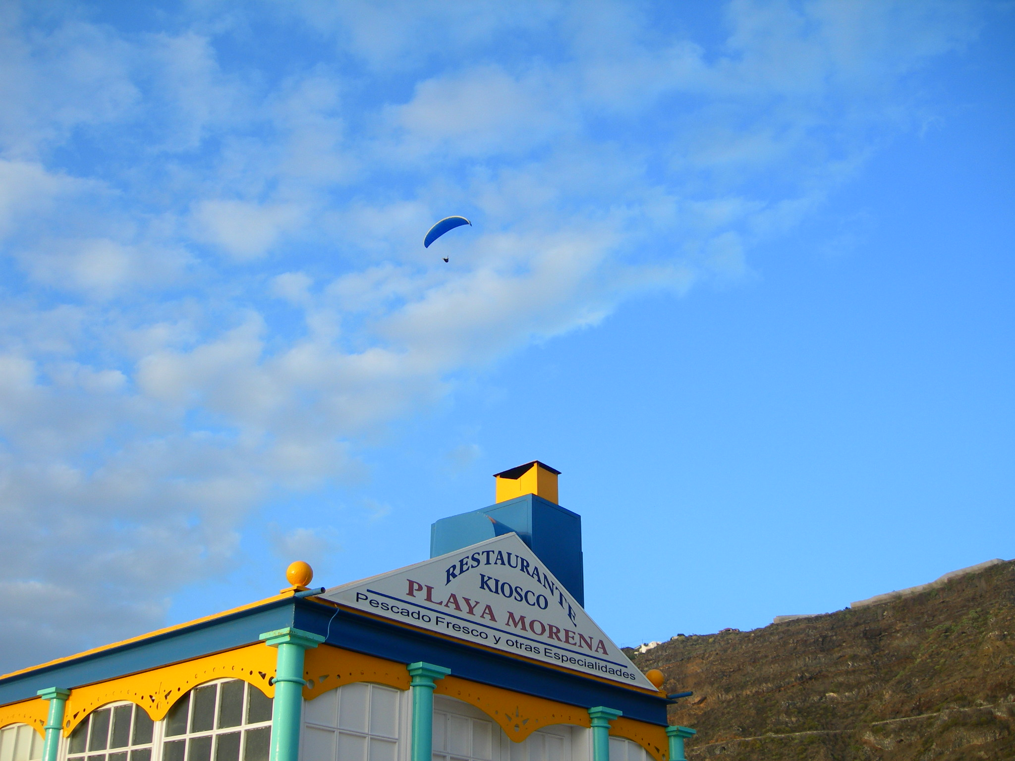 This restaurant does not more exist!